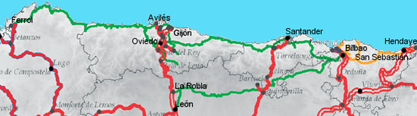 Map of FEVE lines (in green) Source Modified all Spain version from Image:Red ferroviaria espa ola.png